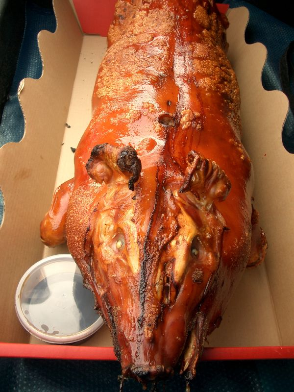 a Cantonese style roasted whole suckling pig.